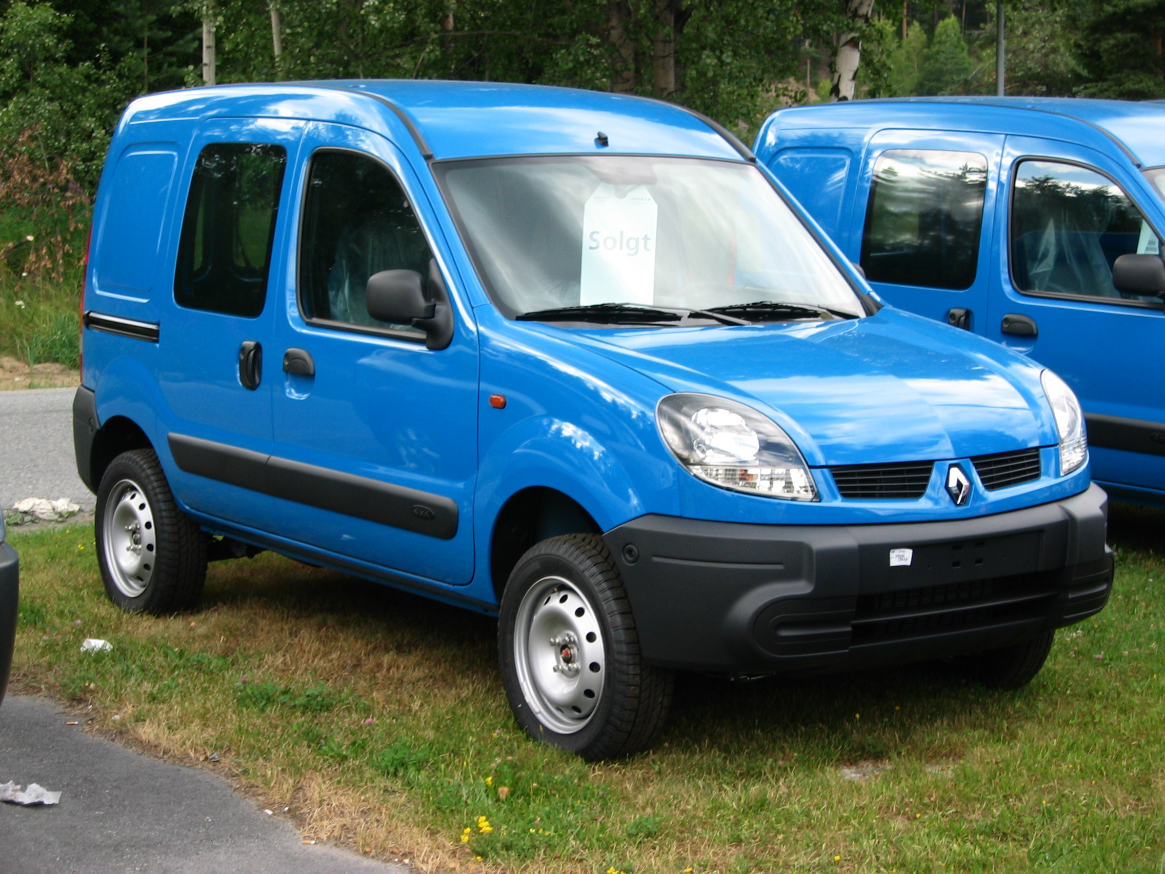 2005 Renault Kangoo I van in Kongsberg, Norway on 2005-07-18. Camera: Canon Powershot S45